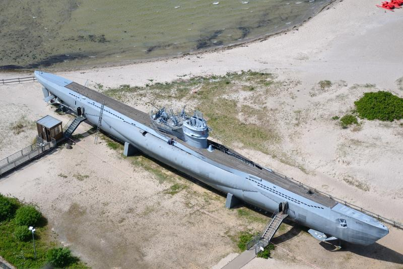 U995. U995 at Laboe beach, Kiel (Schleswig-Holstein).